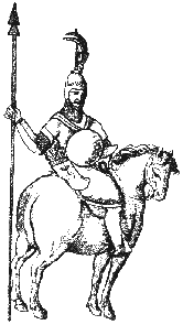 The portrait of Prince Mamia Gurieli, is obtained from The work of art depicted in this image is in the public domain in the United States and in those countries with a copyright term of life of the author plus 100 years.